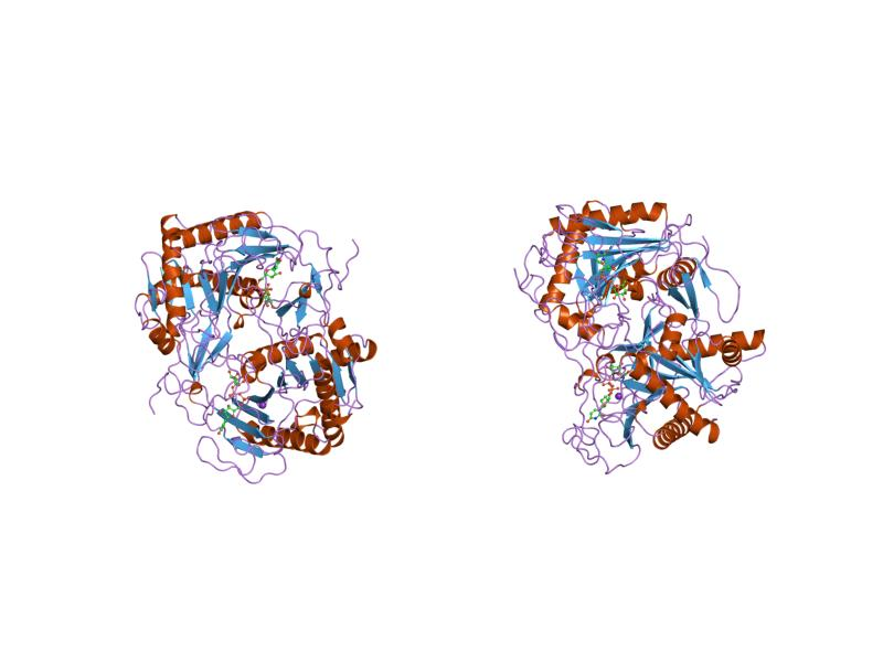 Cartoon representation of the molecular structure of protein registered with 1gup code.